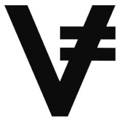 symbol for the SOV cryptocurrency, issued by the Republic of the Marshall Islands since 2018